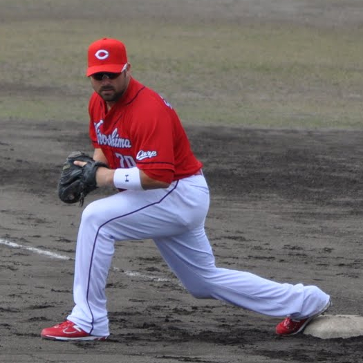 Nick Stavinoha, outfielder of the Hiroshima Toyo Carp, at Okinawa Municipal Baseball Stadium.